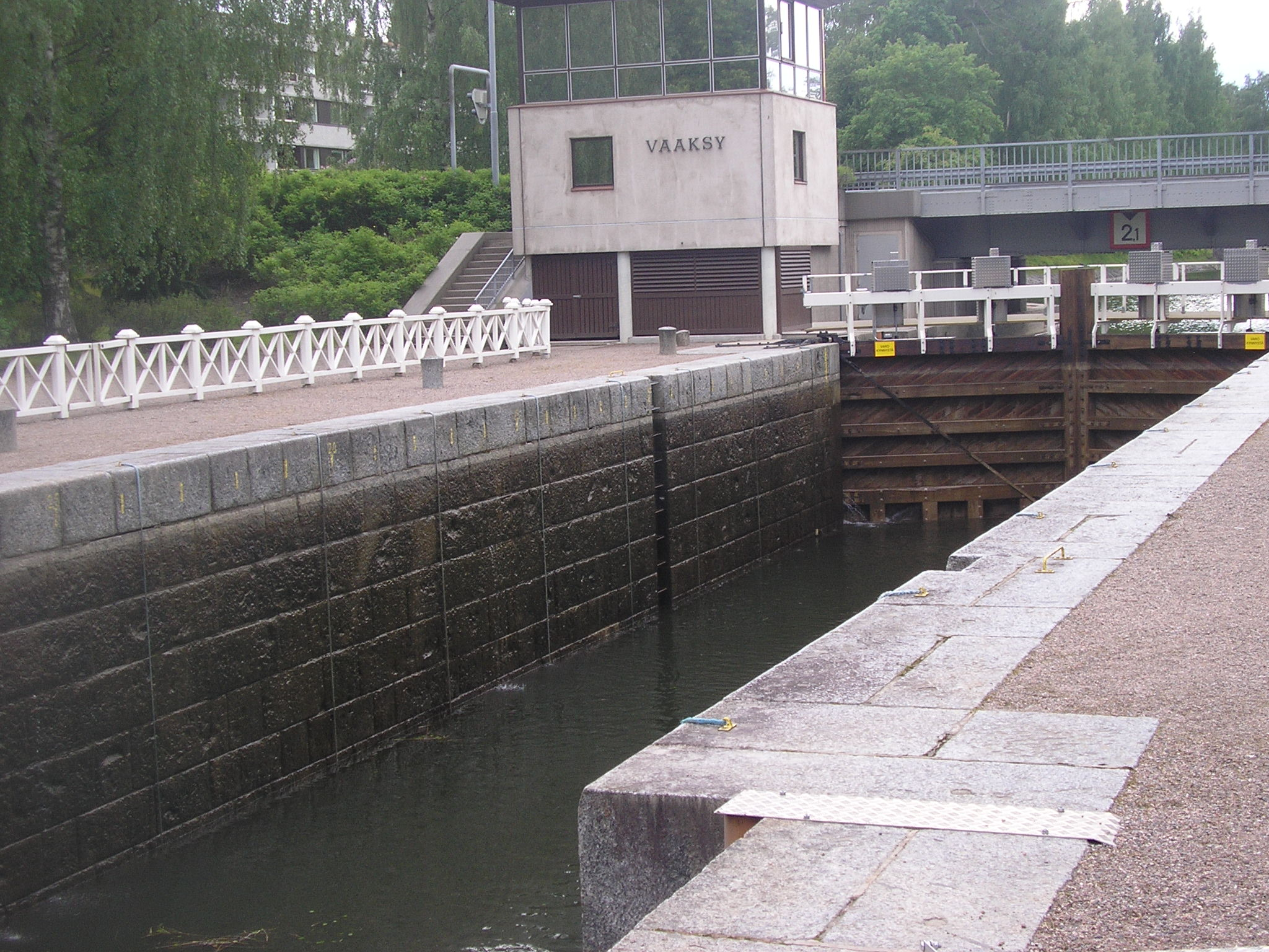 Vääksy Canal in Asikkala, Finland